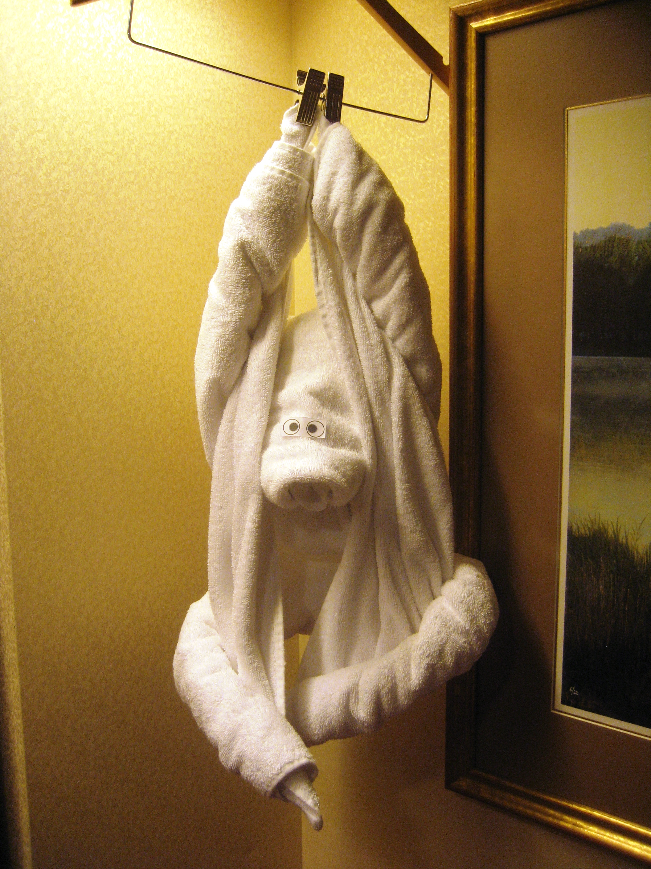 An orangutan towel animal from Holland America Cruise Lines.